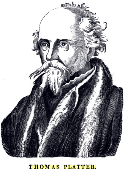 Engraving of Thomas Platter screen shot from